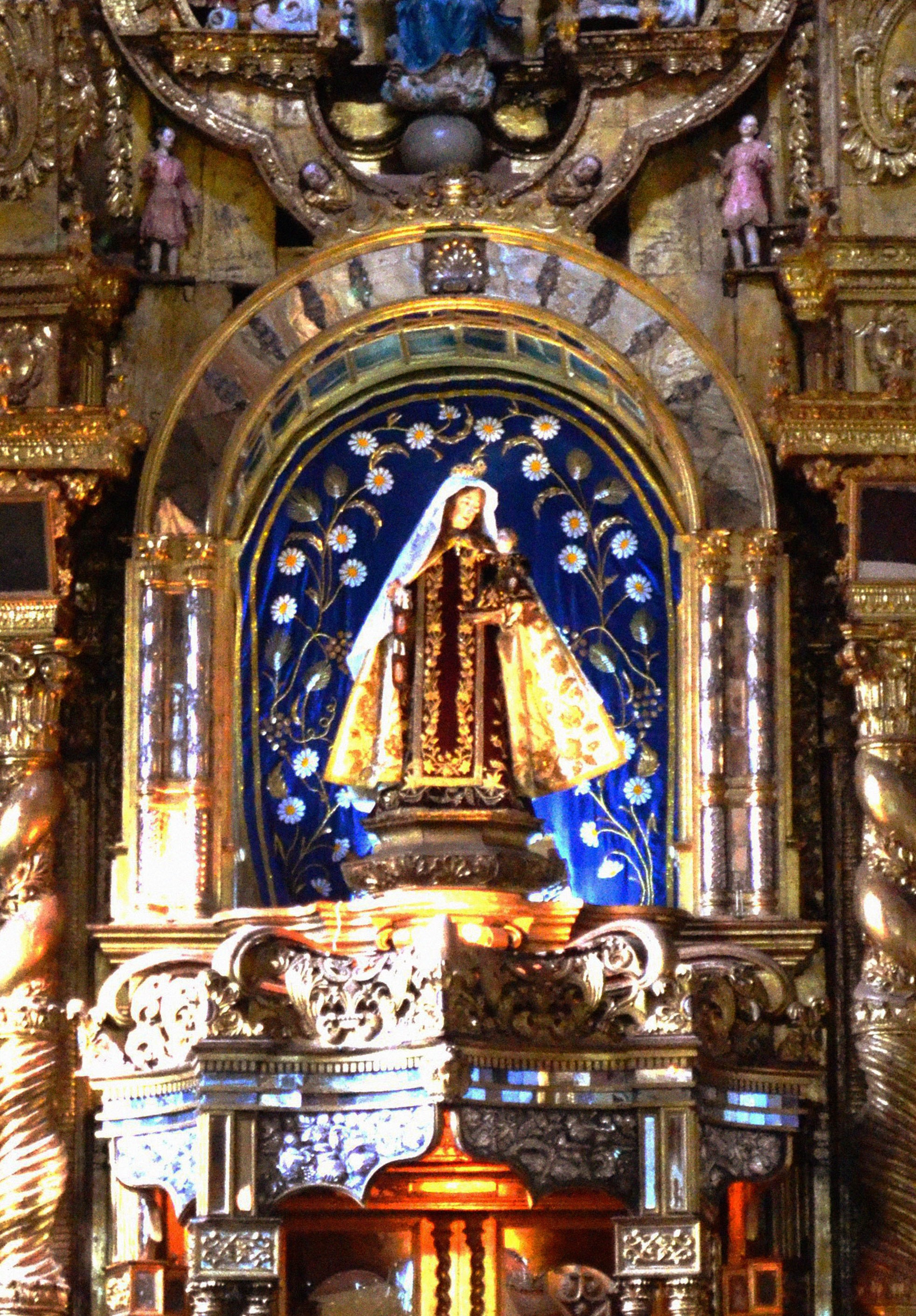 Virgen del Carmen by Maria Estefanía Dávalos - Quito School Century XVIII in the Monasterio del Cármen Bajo o Moderno (Quito - Ecuador)